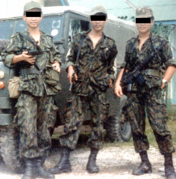 A trio of Singapore Army's Combat Trackers stationed in Brunei's Jungle Warfare School during the early 1980s.